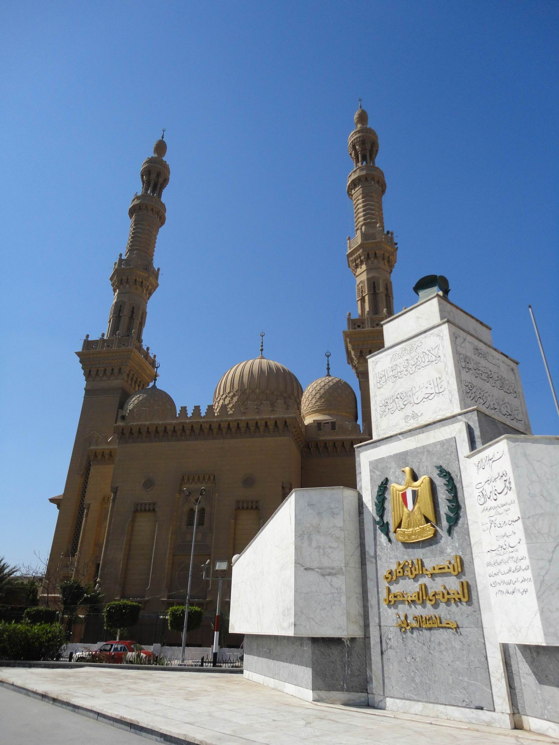 النصب التذكارى للجندى المجهول أمام مسجد الفتح